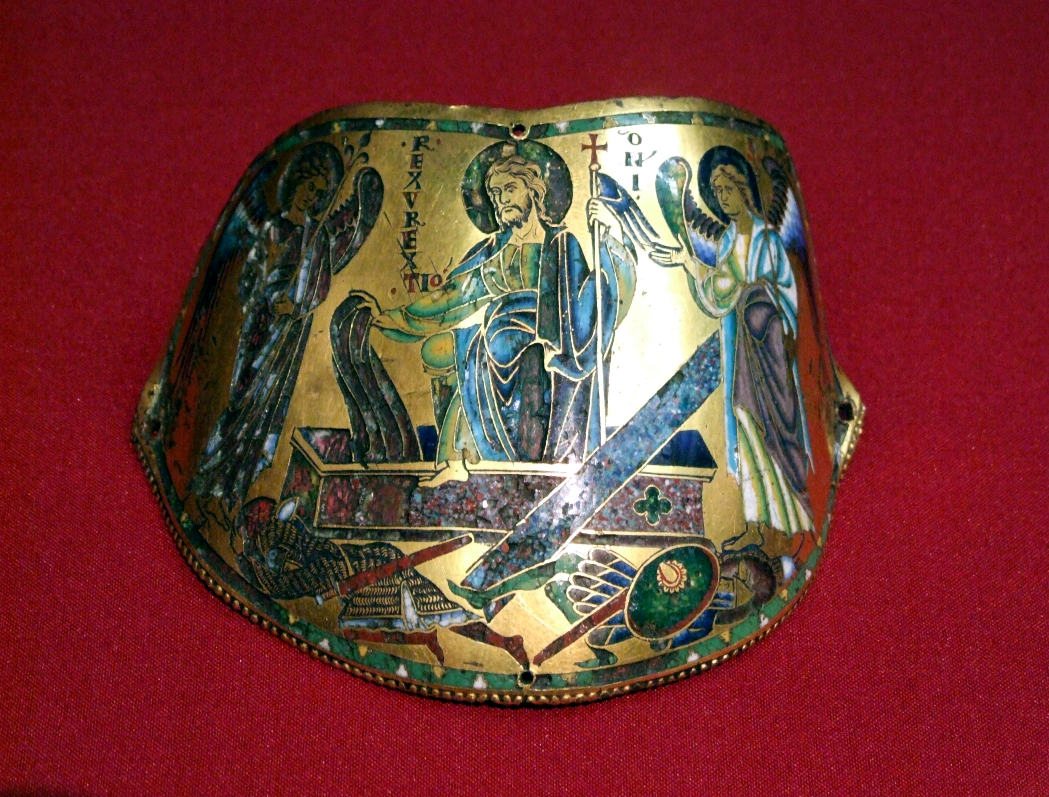 Armlet, ceremonial bracelet, worn on the upper part of the arm.